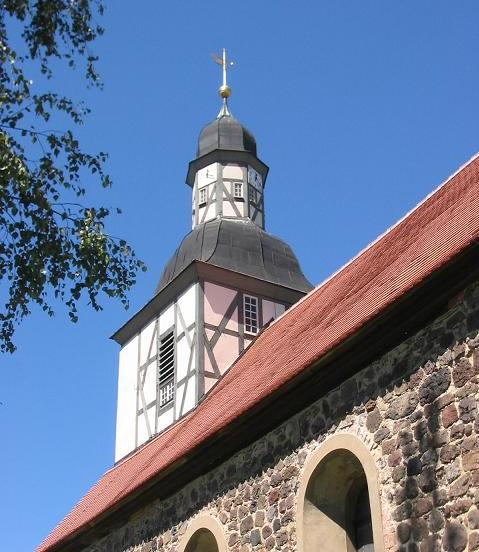 Stone church Borne, built around 1200. The village Borne is an incorporated part of Belzig, the central town of the district Potsdam-Mittelmark in the state Brandenburg of Germany. Belzig appertains to the natural preserve Naturpark Hoher Fläming.